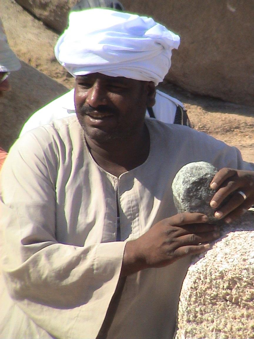 My own work, picture taken on September 2006 at Swan Egypt